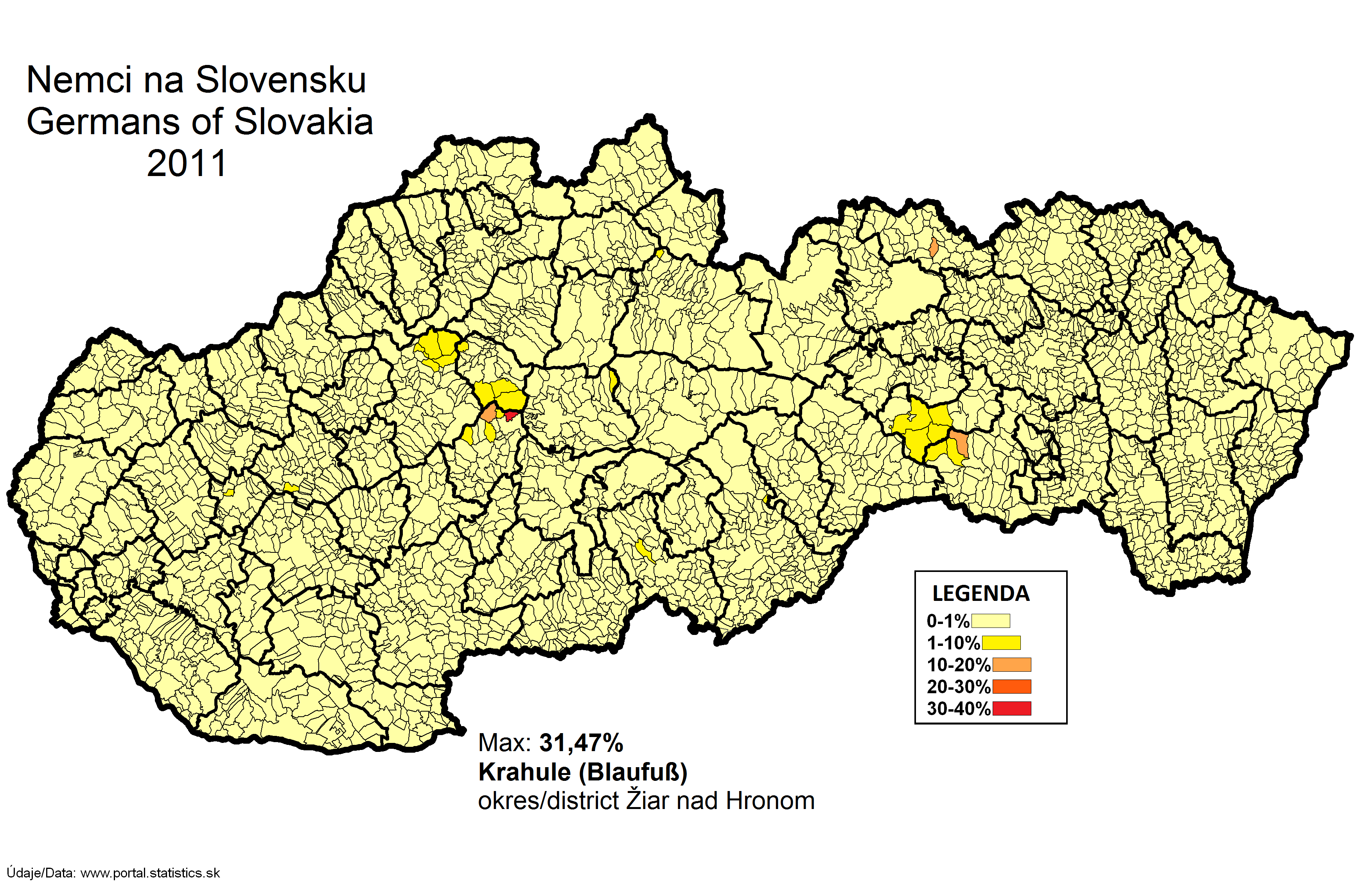 Germans in municipalities of Slovakia in 2011.